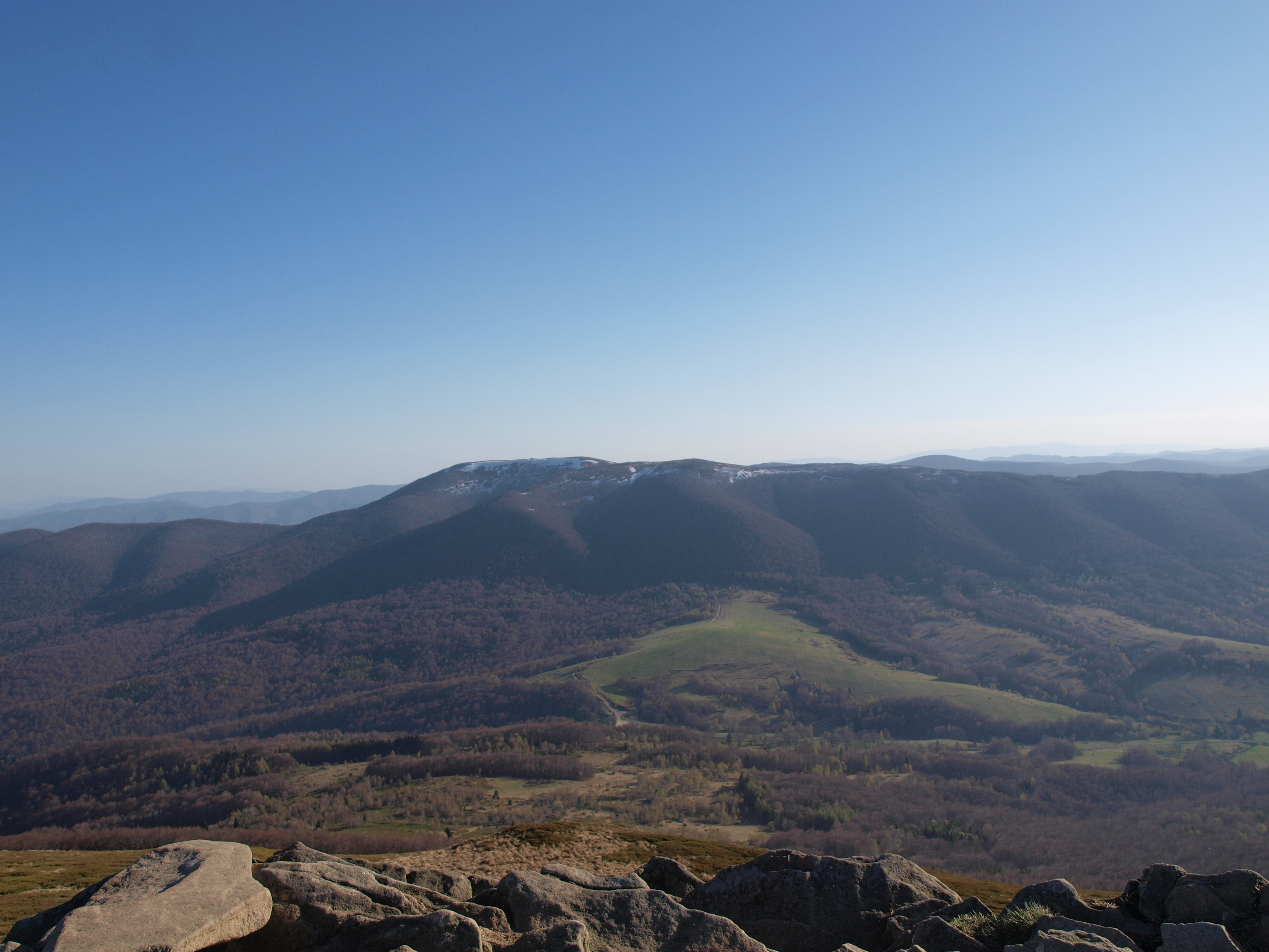 Mountain range of Wielka and Mała Rawka in Bieszczady mountains seen in Spring from Połonina Caryńska peak.